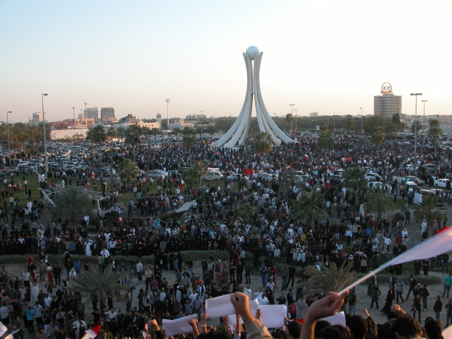 Protesters gathering in Pearl Roundabout for the first time since the beginning of the 2011 Bahraini uprising